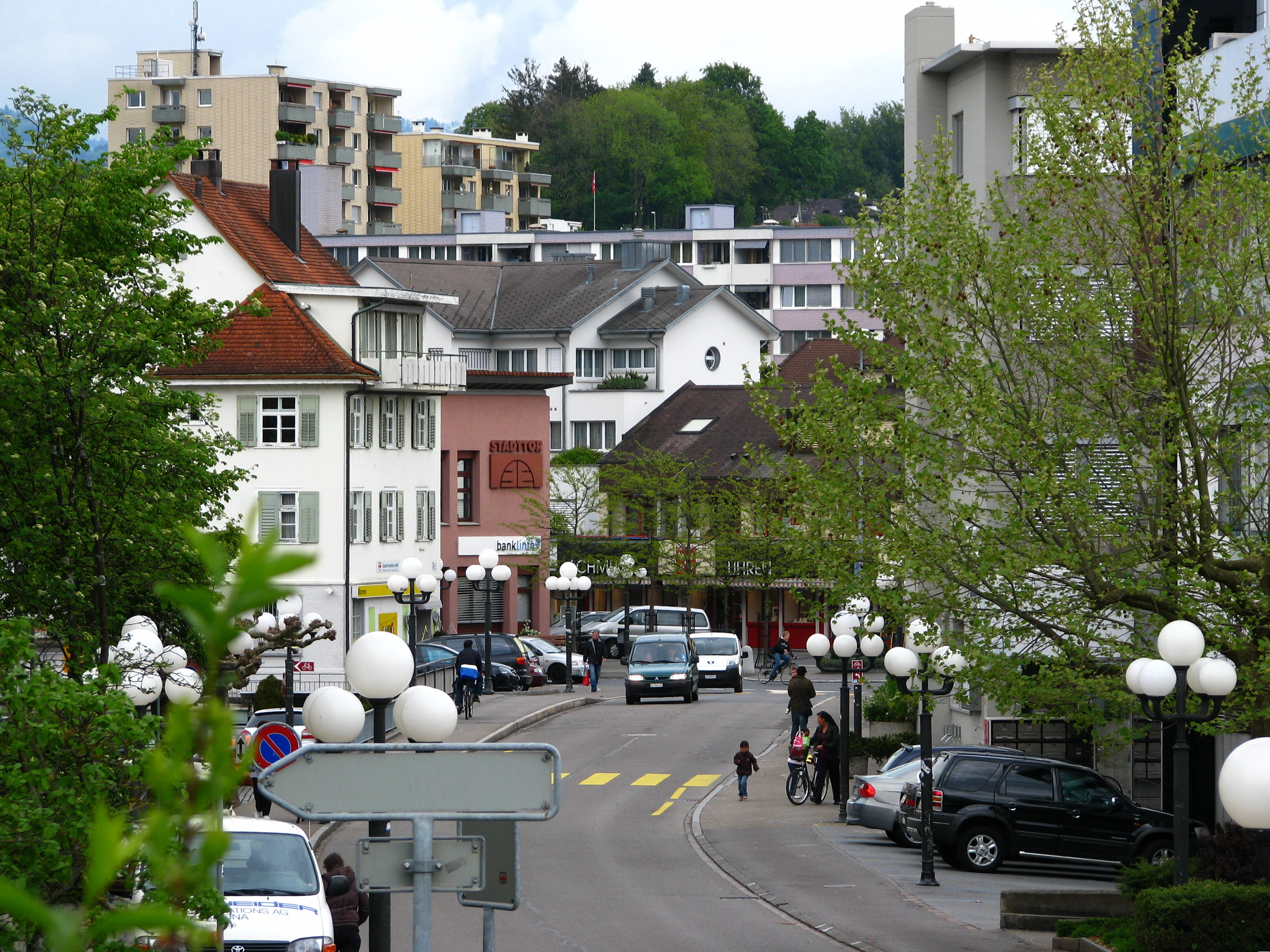 Bühlstrasse in Jona (Switzerland) as seen from Jona train station